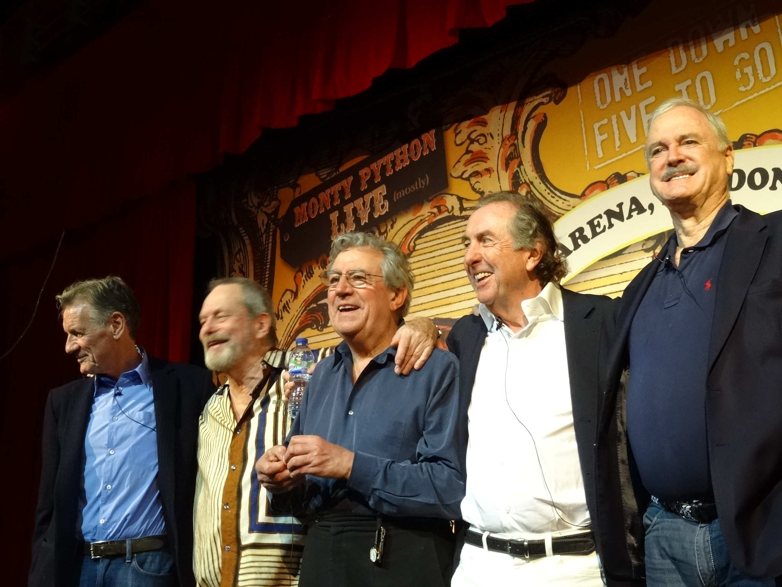 The Monty Python troup reunited after the Monty Python Live (Mostly) show.